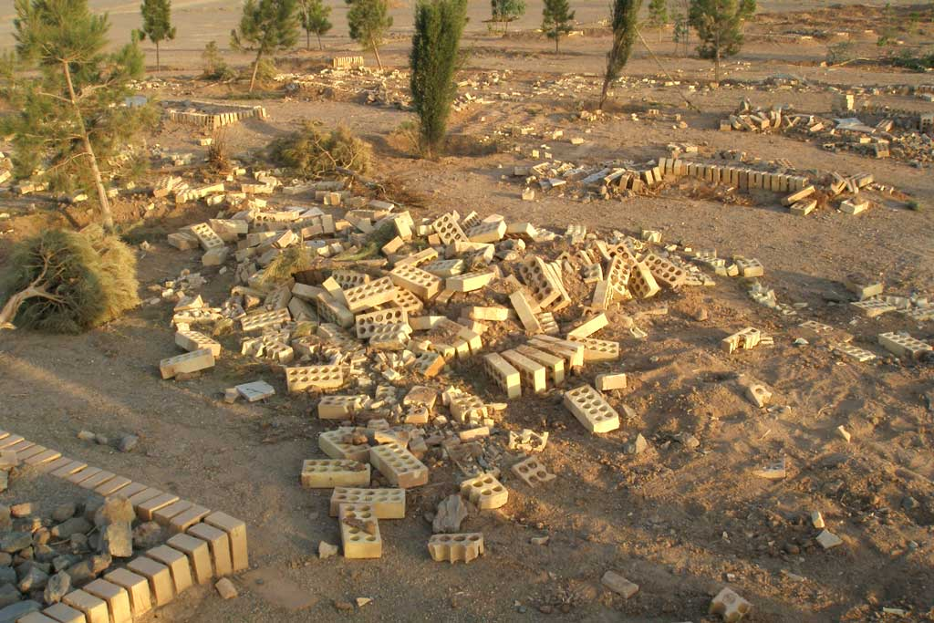 Cemetery of yazd